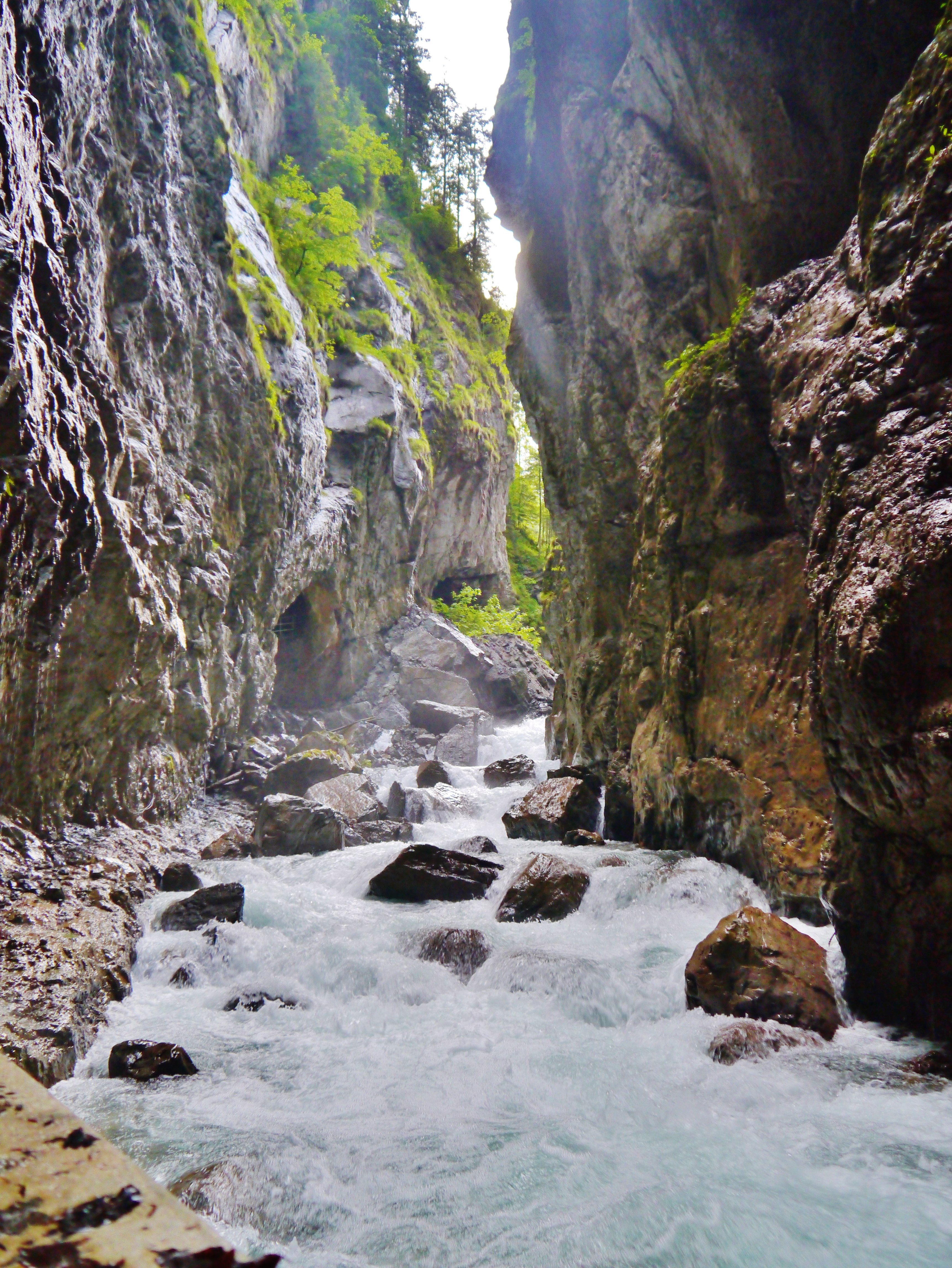 Partnach Gorge, Garmisch-Partenkirchen, Bavaria, Germany